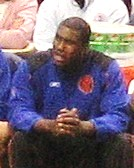 Mo Williams of the Milwaukee Bucks attempts a free throw.